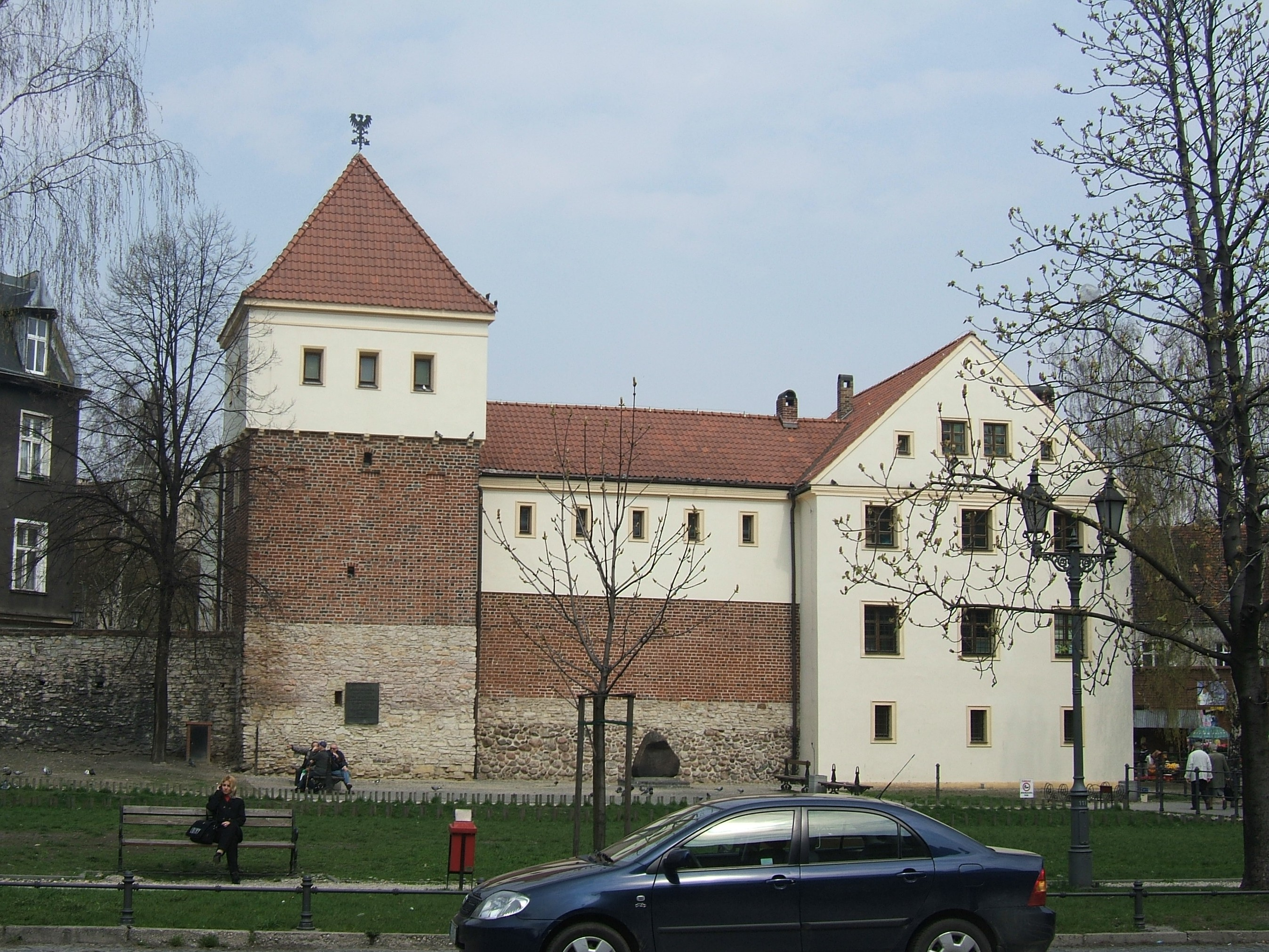 The Gliwice's palace is used as a museum.